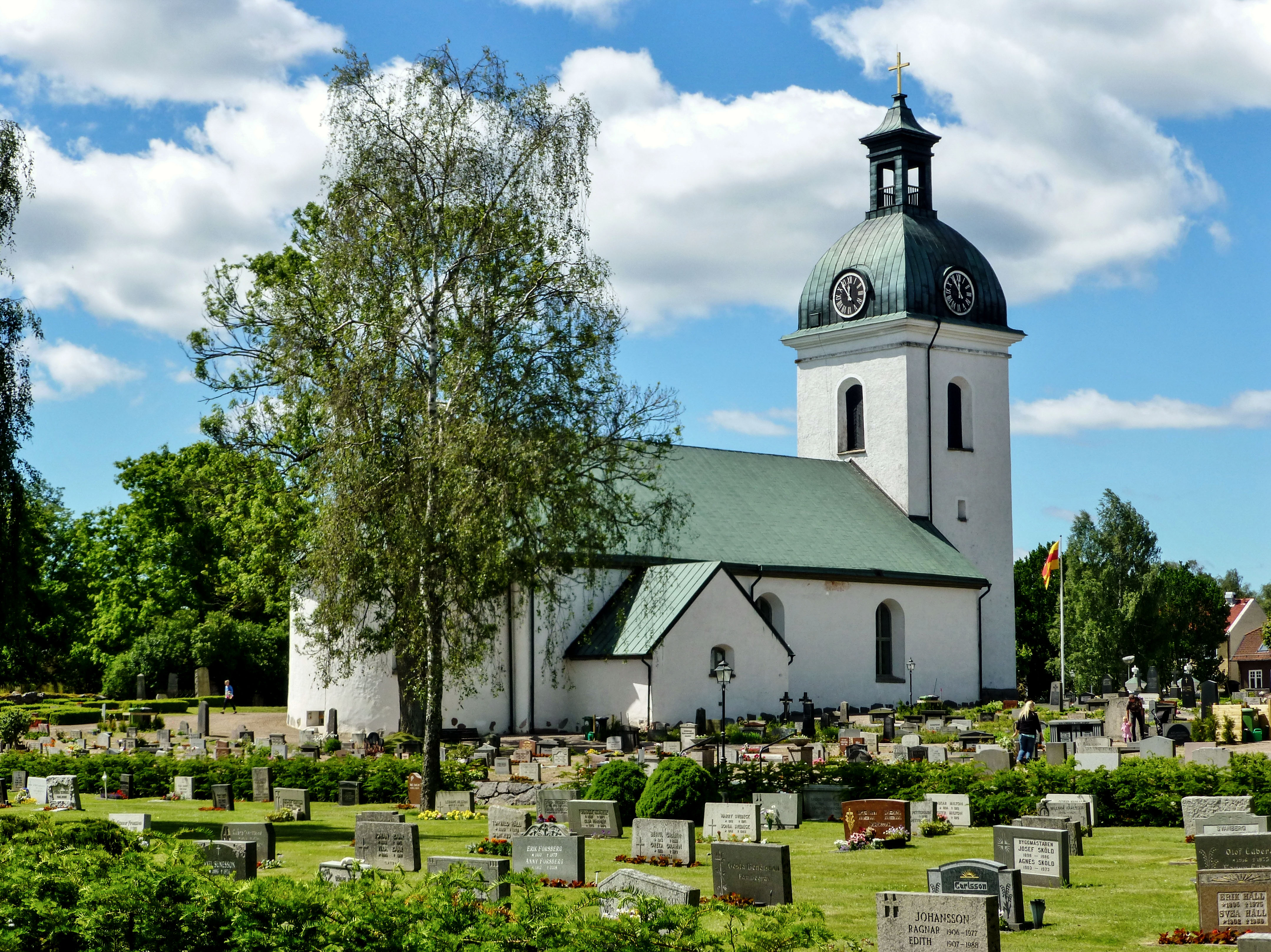 ÅsedaChurch.The oldest part of the present Church are the sacristy, built in the 12th century. The nave was built in the late 15th century or early 16th century. During the 17th century, the church underwent exterior and interior renovations.The major renovation which gave the Church the appearance it has today took place in 1796 – 1803 after plans by Carl Fredrik Adelcrantz.